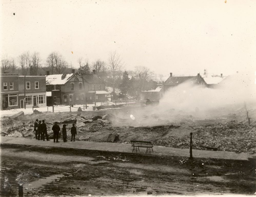 In December 1910, the Sproule Block of businesses, located on the north-east corner of Sydenham Road and Durham Road in Flesherton, Ontario, Canada, burned to the ground due to unknown causes. A quarter of the hamlet's businesses were destroyed in the fire.